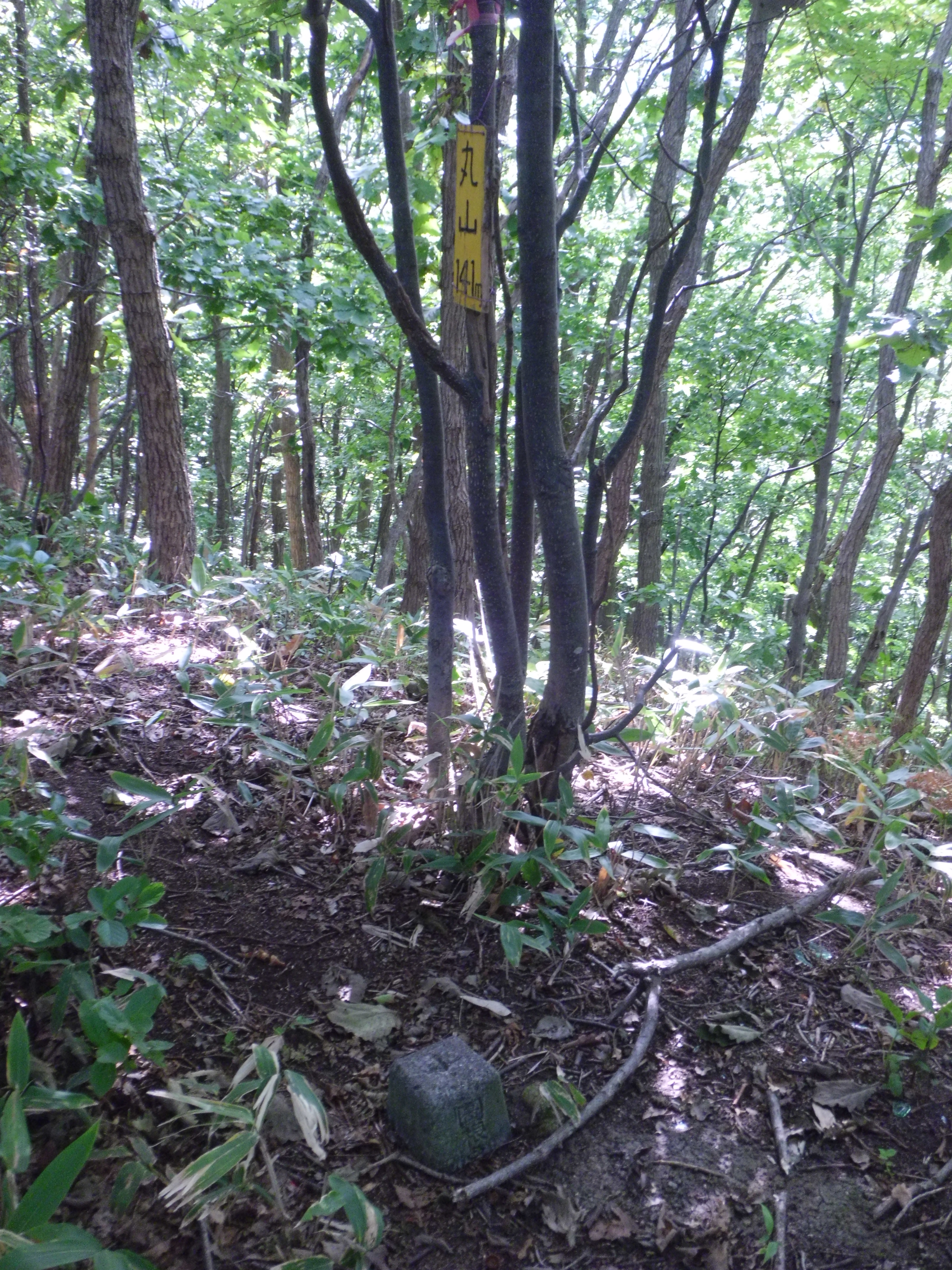 Summit of Mount Maruyama (Teine-ku, Sapporo)